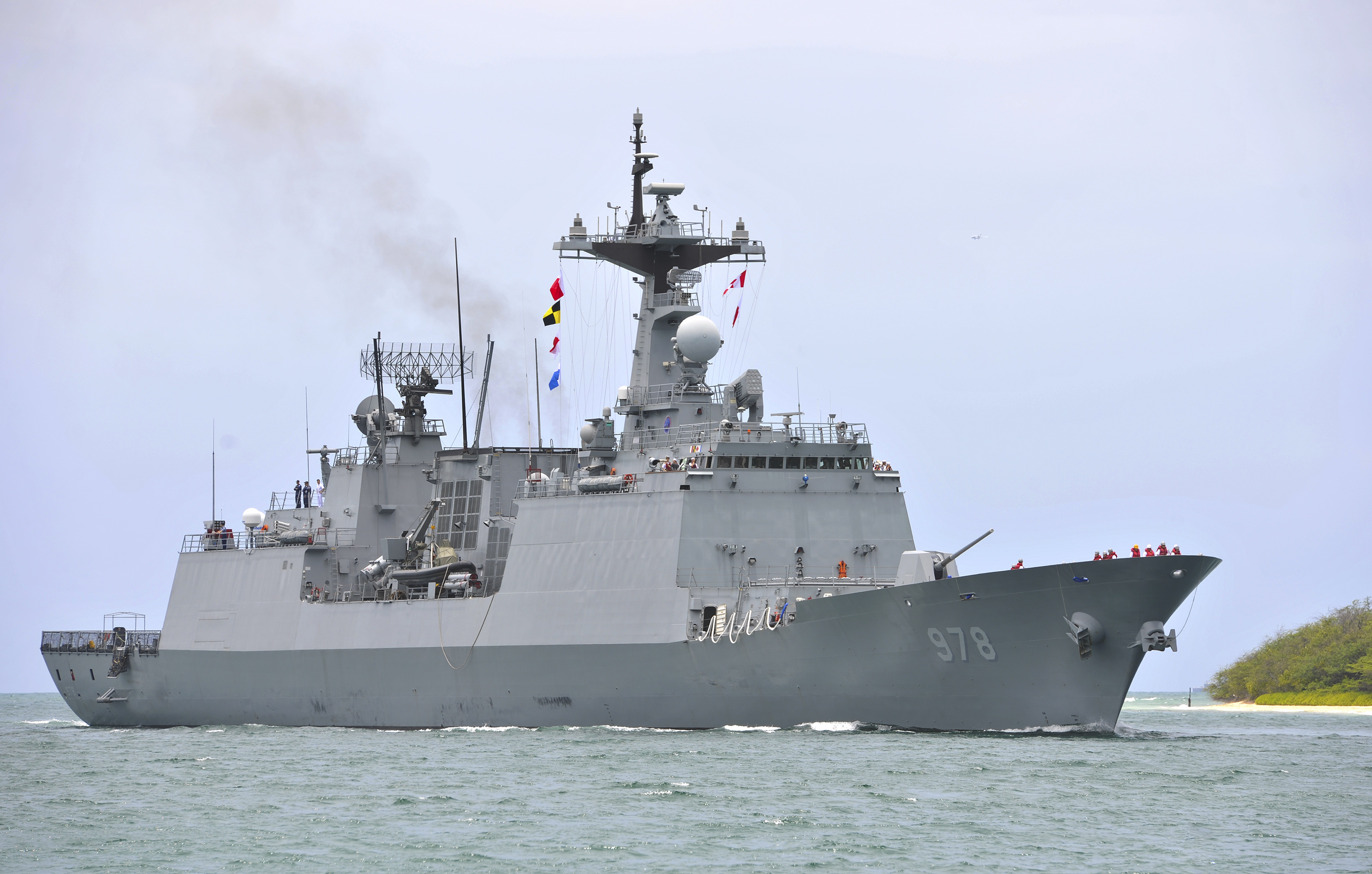 The South Korean destroyer Wang Geon (DDH 978) arrives at Joint Base Pearl Harbor-Hickam, Hawaii, May 20, 2014, in preparation for the Rim of the Pacific (RIMPAC) 2014 exercise. RIMPAC is a U.S. Pacific Command-hosted biennial multinational maritime exercise designed to foster and sustain international cooperation on the security on the world's oceans. (U.S. Navy photo by Mass Communication Specialist 3rd Class Diana Quinlan/Released)